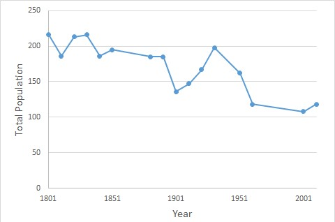 Total population of Farnham, Suffolk from 1801 - 2011, as reported by the Census of Population from 1881 to 2011.